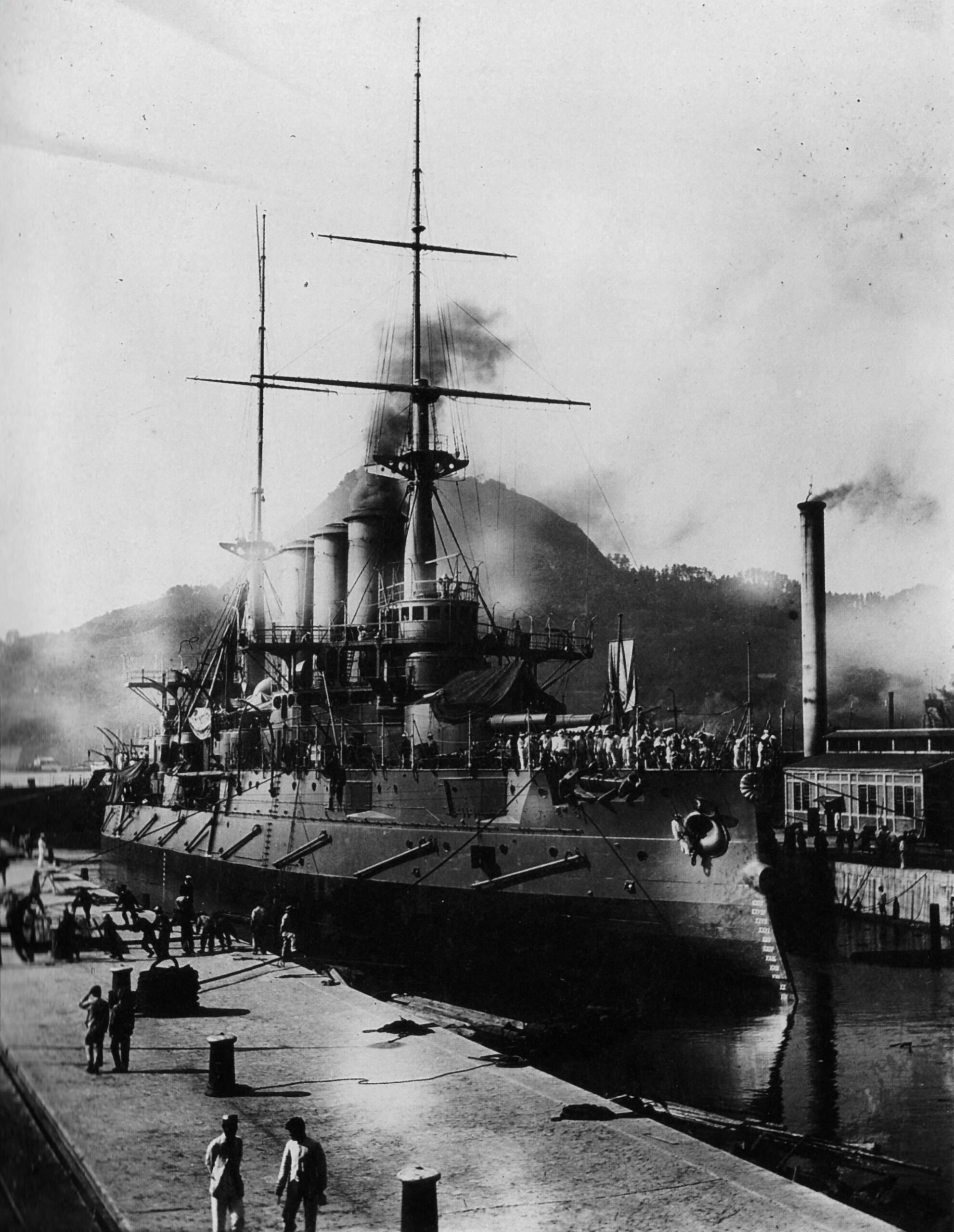 Imperial Japanese battleship Hizen in Sasebo, 9 October 1908.